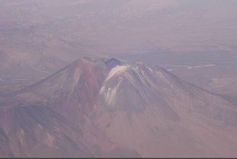 San Pedro, a stratovolcano in Chile.